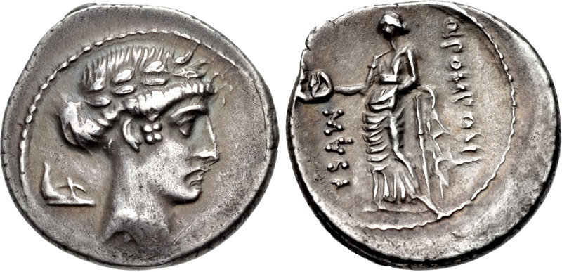 Q. Pomponius Musa. 56 BC. AR Denarius (19mm, 3.79 g, 2h). Rome mint. Laureate head of Apollo right; sandal behind / Thalia, the Muse of Comedy, wearing long flowing tunic and peplum, standing left, holding comic mask in right hand, resting left elbow on draped column; Q · POMPONI downward to right, M’VSA downward to left.